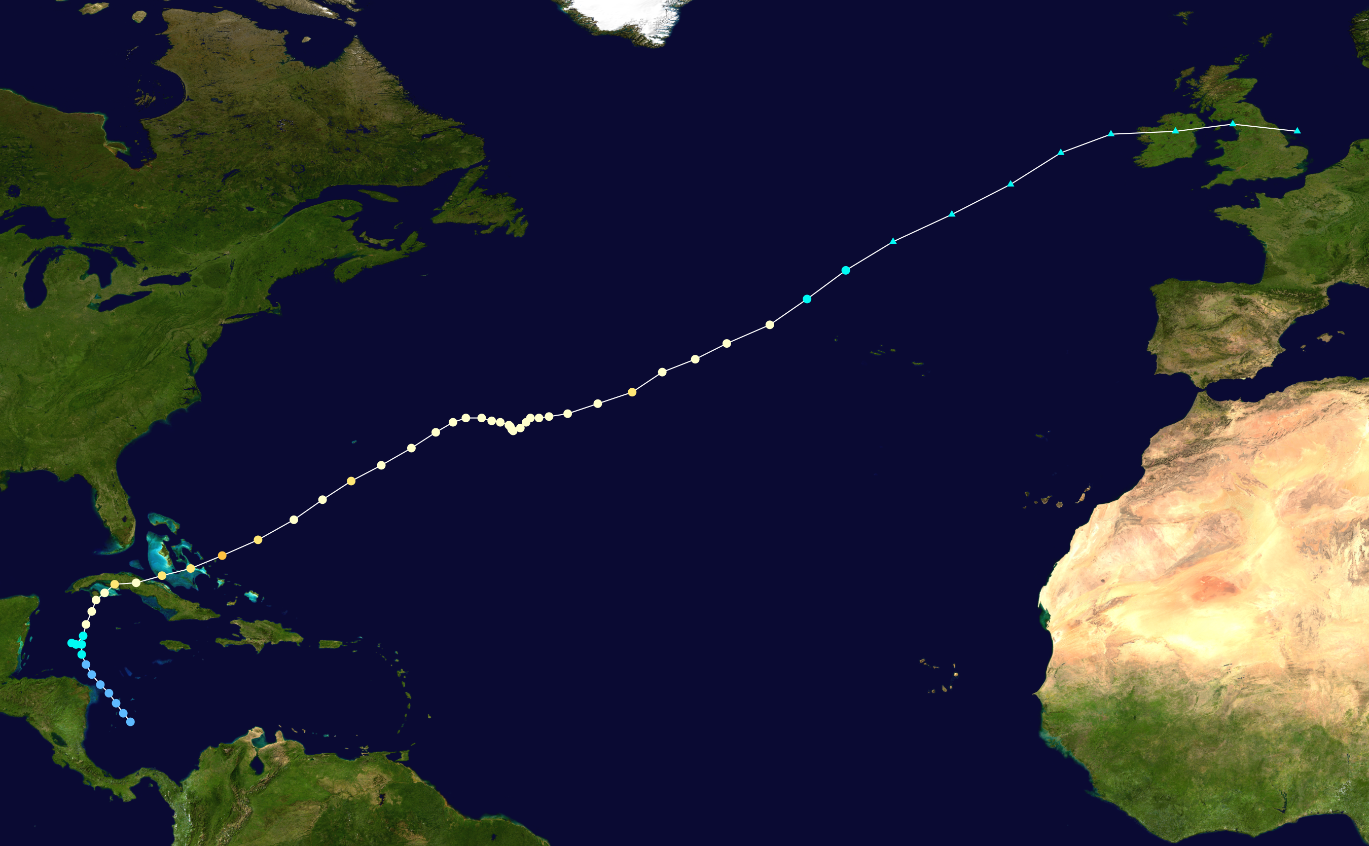 Track map of Hurricane Lili of the 1996 Atlantic hurricane season. The points show the location of the storm at 6-hour intervals. The colour represents the storm's maximum sustained wind speeds as classified in the Saffir–Simpson scale (see below), and the shape of the data points represent the nature of the storm, according to the legend below. Saffir–Simpson scale Tropical depression≤38 mph≤62 km/h Category 3111–129 mph178–208 km/h Tropical storm39–73 mph63–118 km/h Category 4130–156 mph209–251 km/h Category 174–95 mph119–153 km/h Category 5≥157 mph≥252 km/h Category 296–110 mph154–177 km/h Unknown Storm type Tropical cyclone Subtropical cyclone Extratropical cyclone / Remnant low / Tropical disturbance / Monsoon depression